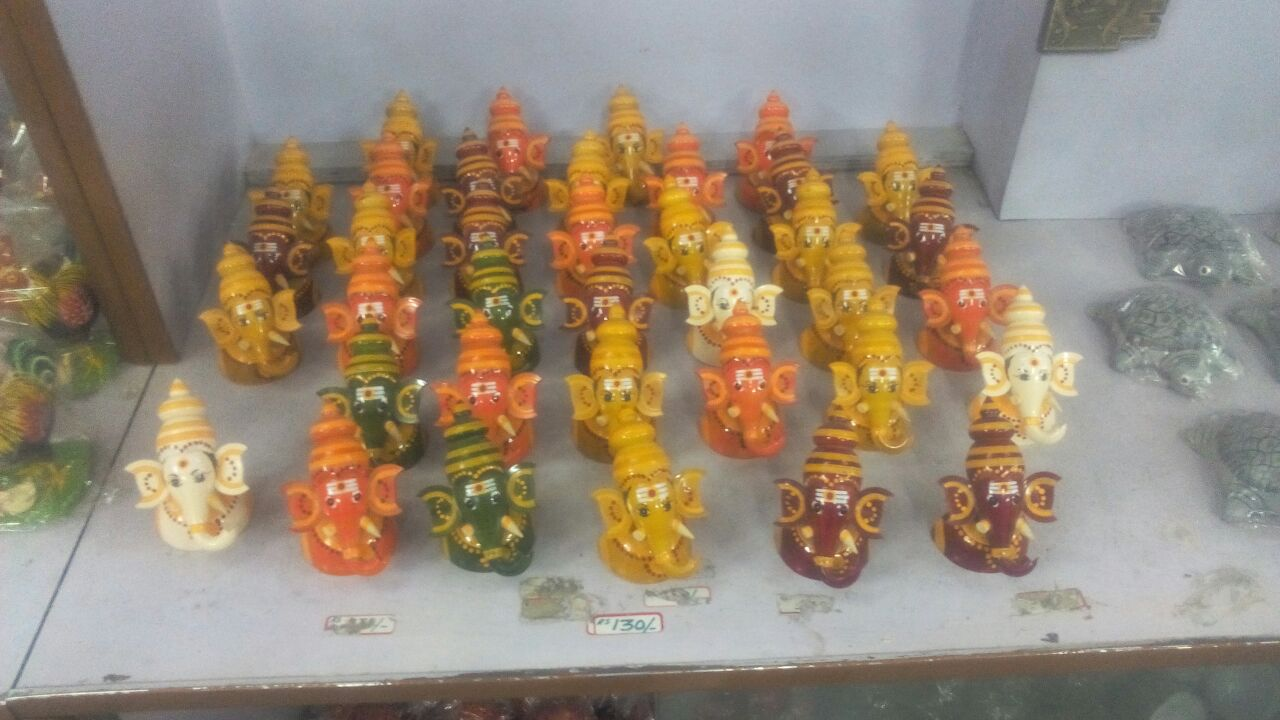 Nirmal wooden toys-Head of Lord Vinayaka